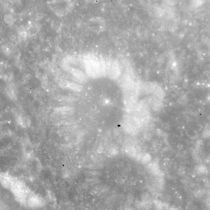 Cartan crater, the moon. Rotated so that north is at top.